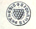 Seal of John of Saint Omer (IOHANNIS DE THEBIS), Baron of Passavant